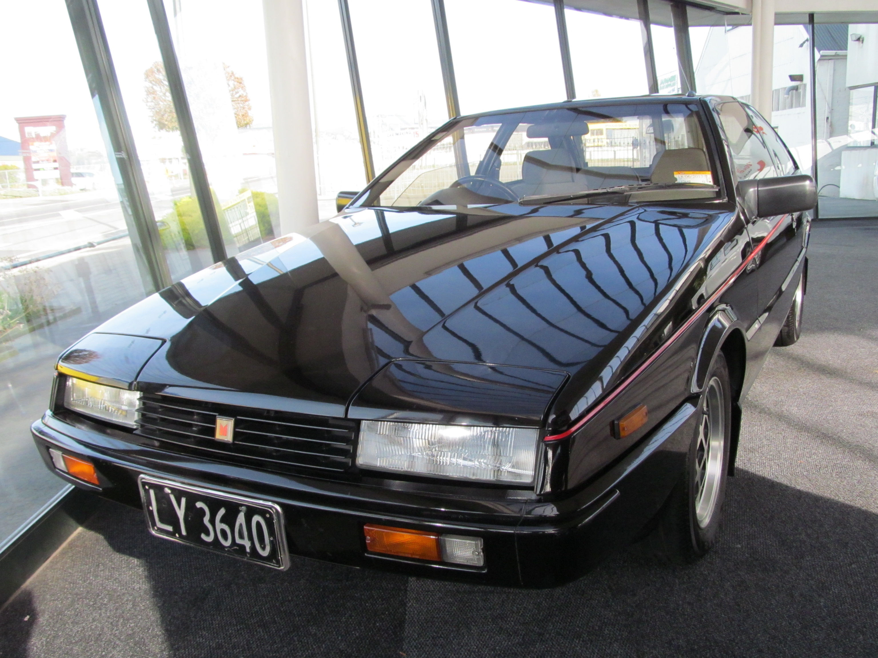 LY3640 This was in utterly immaculate condition and as might be expected, is a one-owner car. I spoke to the salesman and he told me it belonged to the sales manager at Silvester Motor Company, who recently retired and put the car up for sale at the dealership. He bought it new 28 years ago! It is for sale at $10,000, which seems a steal for something this good. More details tomorrow with the other photos I took.